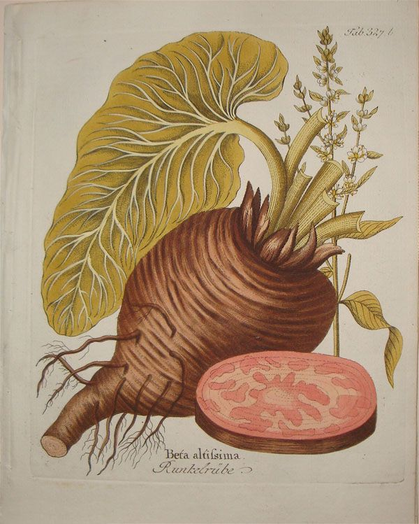 Beta altissima from Icones Plantarum Medico-Oeconomico-Technologicarum (1800-1822)